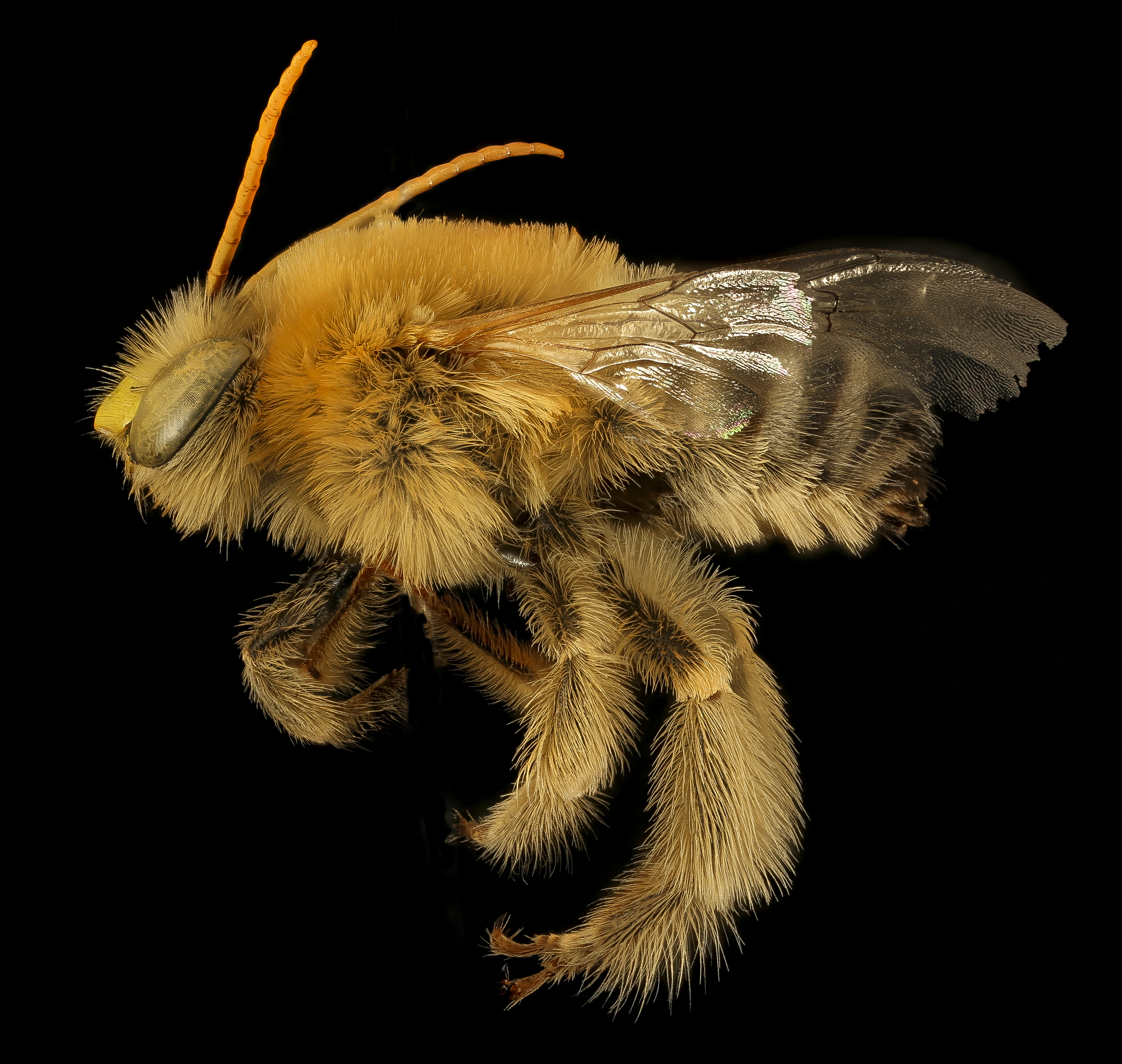 I am spacing at the moment as to who lent me these species, but hopefully can track that down and correct the record. Such a lovely odd bee. It forages a dawn in the deserts of the Southwest, is big, lush and lovely. One of only 3 species. This one caught in Wilcox, AZ...probably at the Bee Course. Photographed by Dejen Mengis. 03:00, 11 April 2016 (UTC)03:00, 11 April 2016 (UTC) 0 03:00, 11 April 2016 (UTC)03:00, 11 April 2016 (UTC) All photographs are public domain, feel free to download and use as you wish. Photography Information: Canon Mark II 5D, Zerene Stacker, Stackshot Sled, 200mm Pentax-m with Nikon 10X infinity microscope objective lens mounted on front , Twin Macro Flash in Styrofoam Cooler, F5.6, ISO 100, Shutter Speed 200 Love for Other Things It’s easy to love a deer But try to care about bugs and scrawny trees Love the puddle of lukewarm water From last week’s rain. Leave the mountains alone for now. Also the clear lakes surrounded by pines. People are lined up to admire them. Get close to the things that slide away in the dark. Be grateful even for the boredom That sometimes seems to involve the whole world. Think of the frost That will crack our bones eventually. - Tom Hennen You can also follow us on Instagram account USGSBIML Want some Useful Links to the Techniques We Use? Well now here you go Citizen: Basic USGSBIML set up: USGSBIML Photoshopping Technique: Note that we now have added using the burn tool at 50% opacity set to shadows to clean up the halos that bleed into the black background from "hot" color sections of the picture. PDF of Basic USGSBIML Photography Set Up: ftp://ftpext.usgs.gov/pub/er/md/laurel/Droege/How%20to%20Take%20MacroPhotographs%20of%20Insects%20BIML%20Lab2.pdf Google Hangout Demonstration of Techniques: or Excellent Technical Form on Stacking: Contact information: Sam Droege 301 497 5840